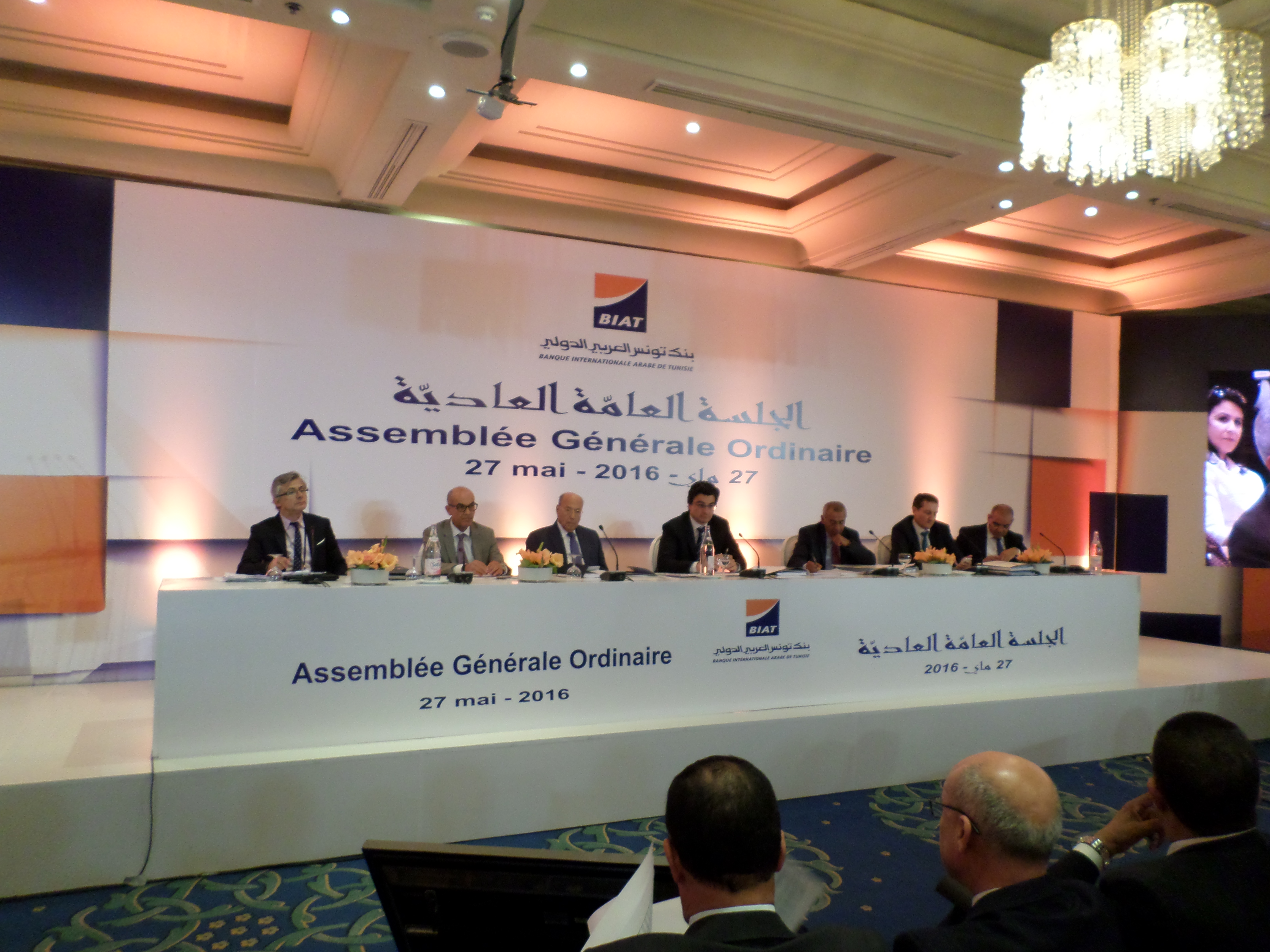 2016 annual general meeting of Biat.